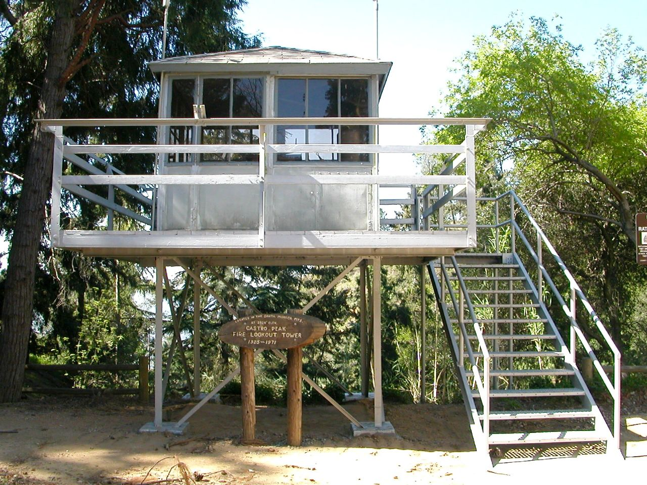 Castro Peak Fire Lookout Tower" This used to be in the Santa Monica Mtns. from 1925 to 1971 and it was moved here to Henninger FlatsDSCN0477